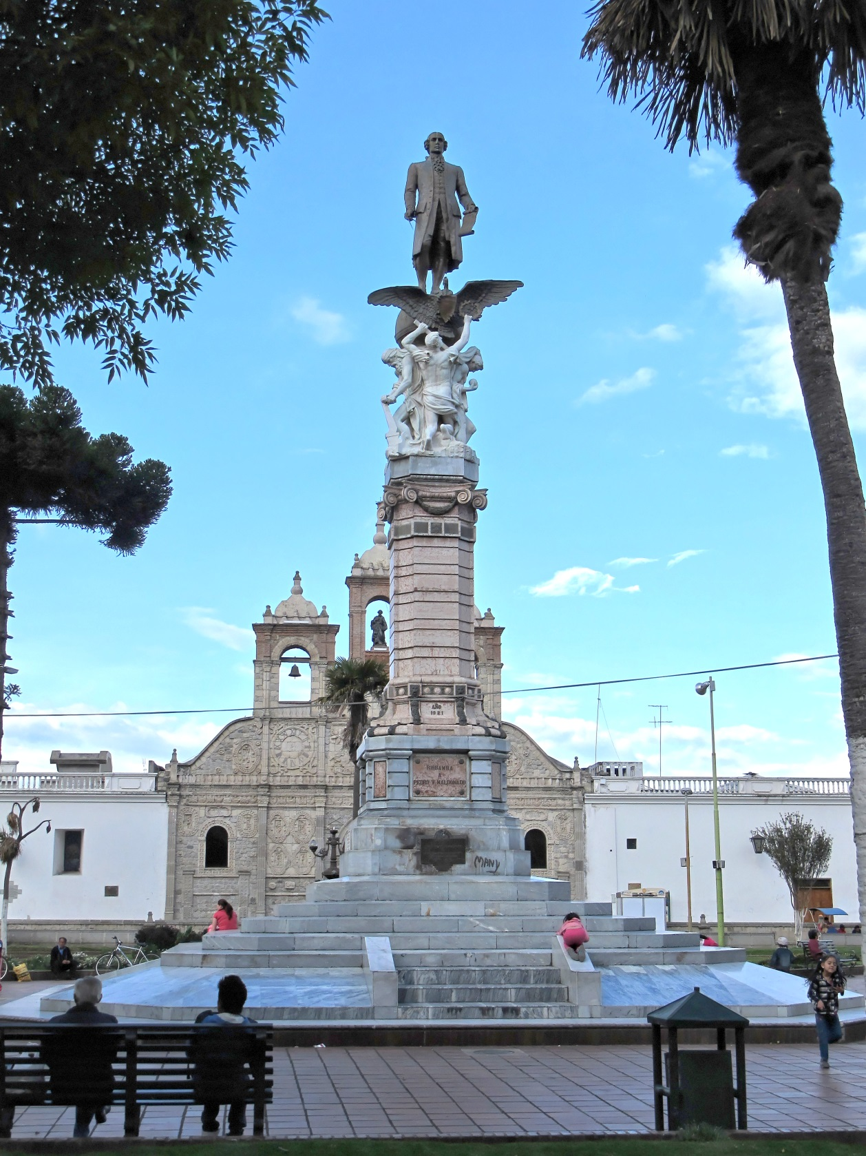 City of Riobamba, Monument to Pedro_Vicente_Maldonado